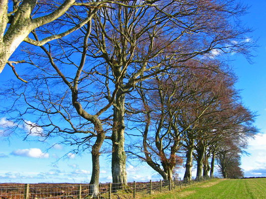 Roman marching camp The site of Normandykes Roman marching camp near Peterculter.